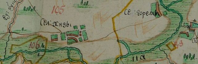 Hizy village in 1783